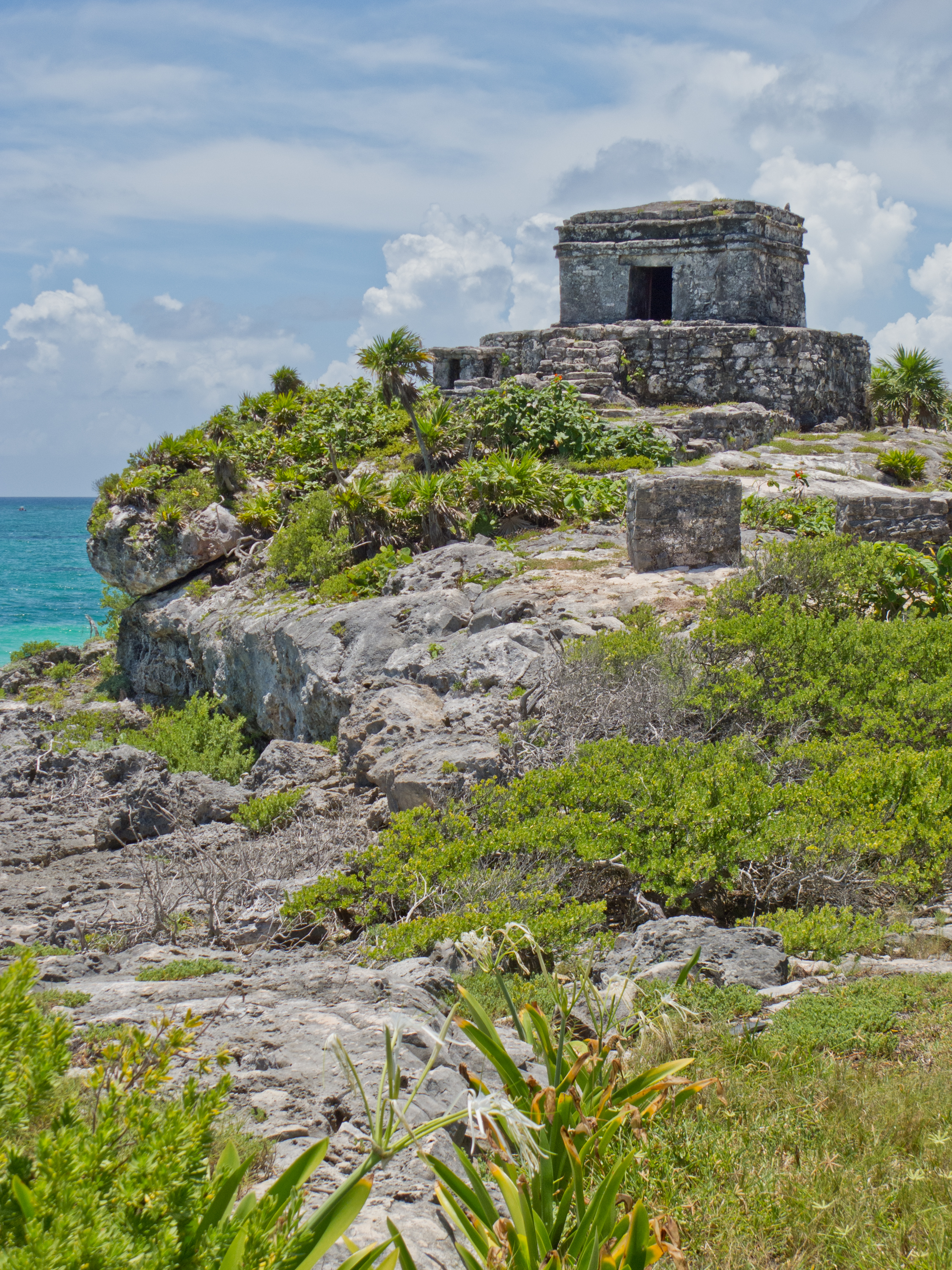 Tulum, Quintana Roo, Mexico.